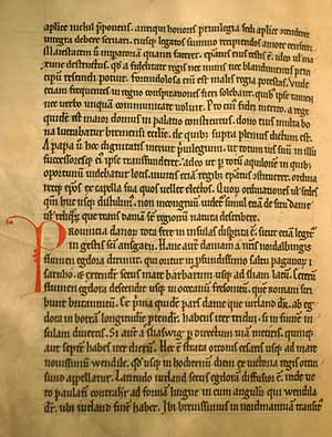 unidentified ms. page of Adam von Bremen's Gesta Hammaburgensis ecclesiae pontificum. The page includes the beginning of the description of the geography of Denmark (red initial P), Provincia danorum tota fere in insulas dispartita est...